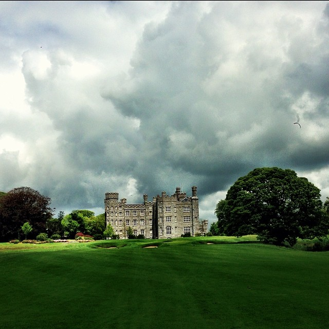 18th Hole at Killeen Castle, Co. Meath